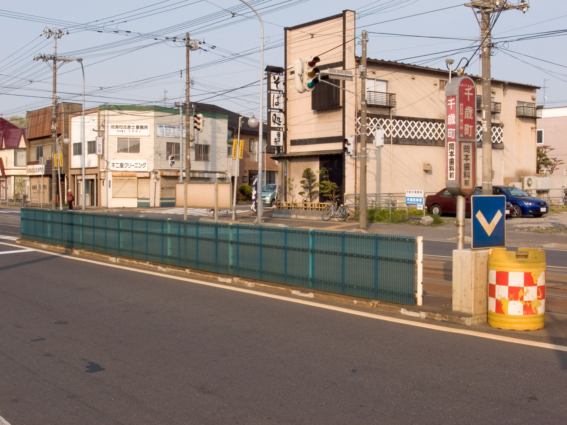 Chitosecho station in Hakodate tram, Hokkaido, Japan